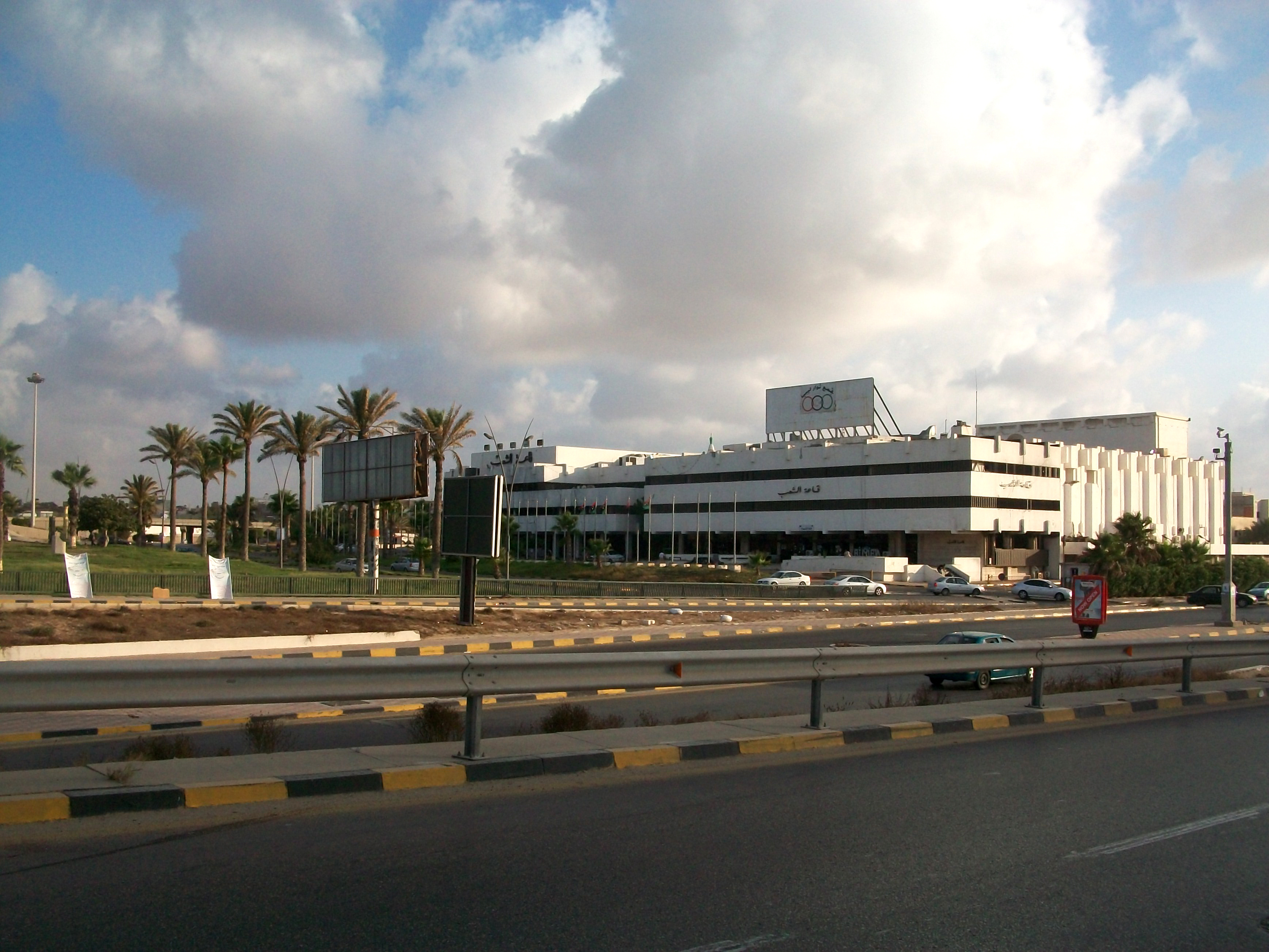 The former Peoples Hall in Tripoli Libya in the Suq al Thulath neighbourhood on Gergarish Road.